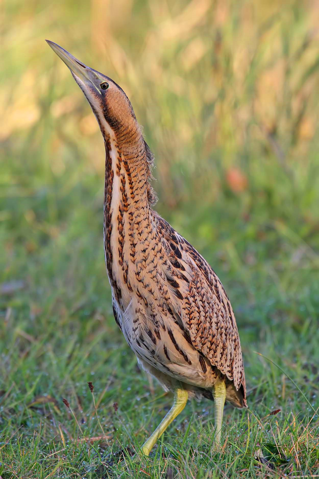 Bittern Botaurus stellaris, Far Ings, Barton-upon-Humber, North Lincolnshire, UK